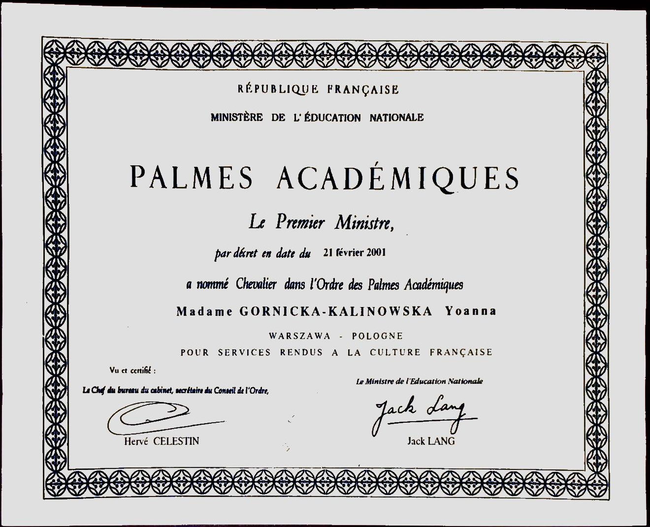 This is a diploma confirming award by French state to prof. Górnicka-Kalinowska for her activities in promoting French culture